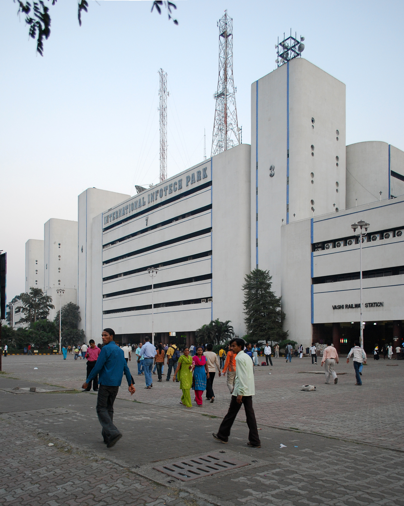 Vashi Railway Station, Mumbai